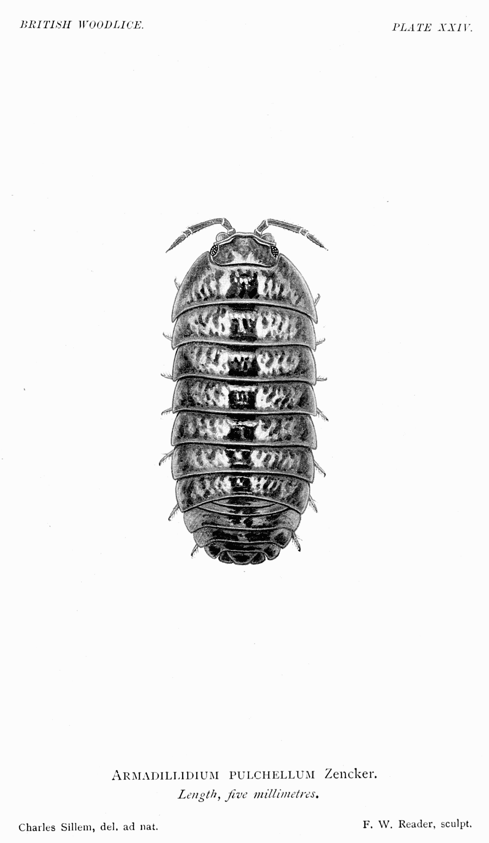 Illustration from the book given under "Source"